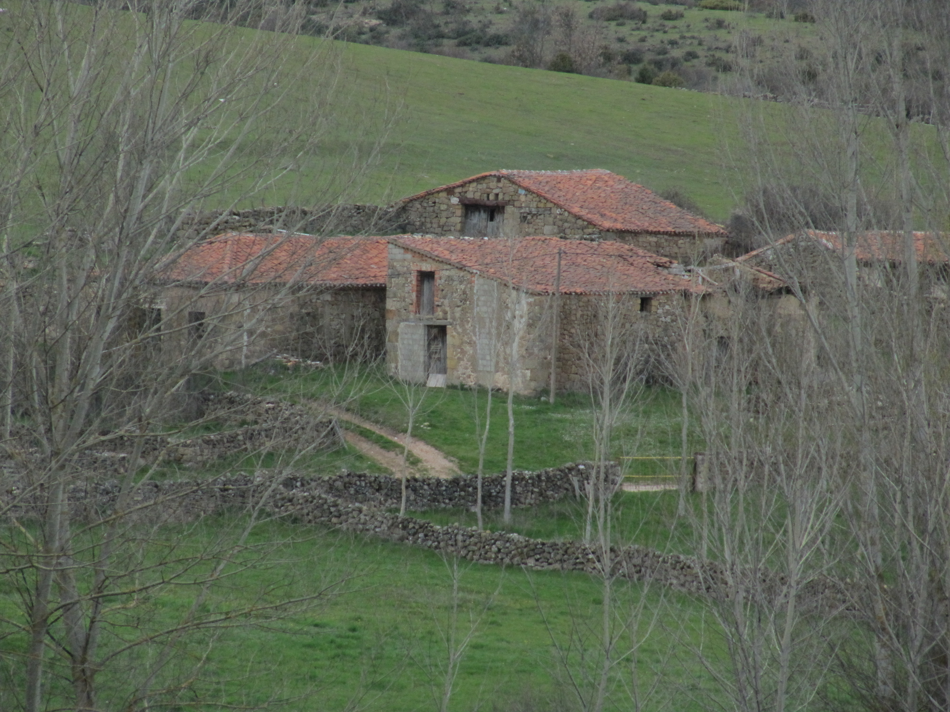 Campos y Casas de la Aldea del Pinar, Hontoria del Pinar